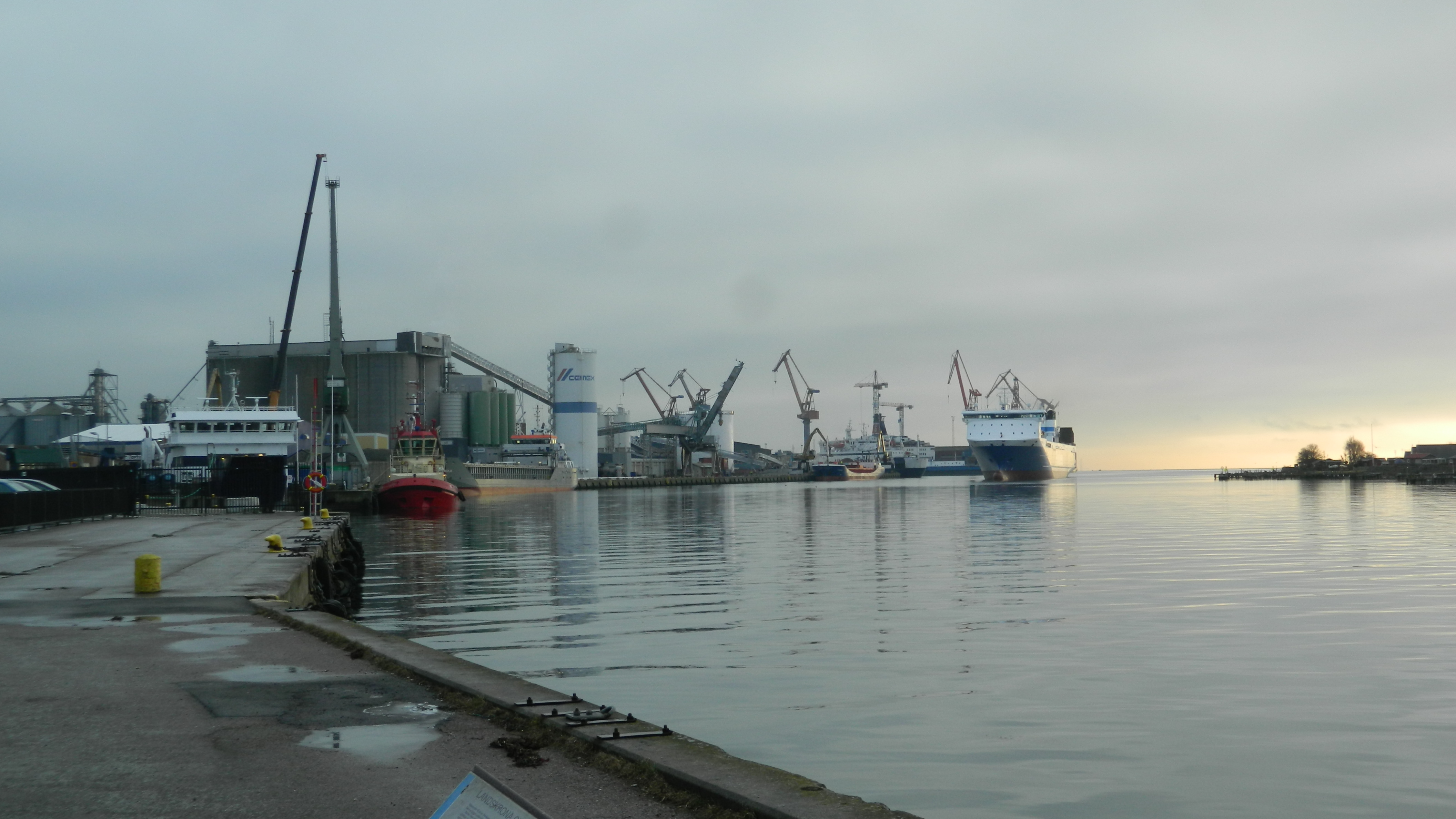 Landskrona Harbour, the main basin. A part of the protecting artificial island Gråen can be seen to the right, the shipyard Öresundsvarvet in the background. There is no possibility to enter or leave the harbour to the south, as the waters there becomes very shallow.